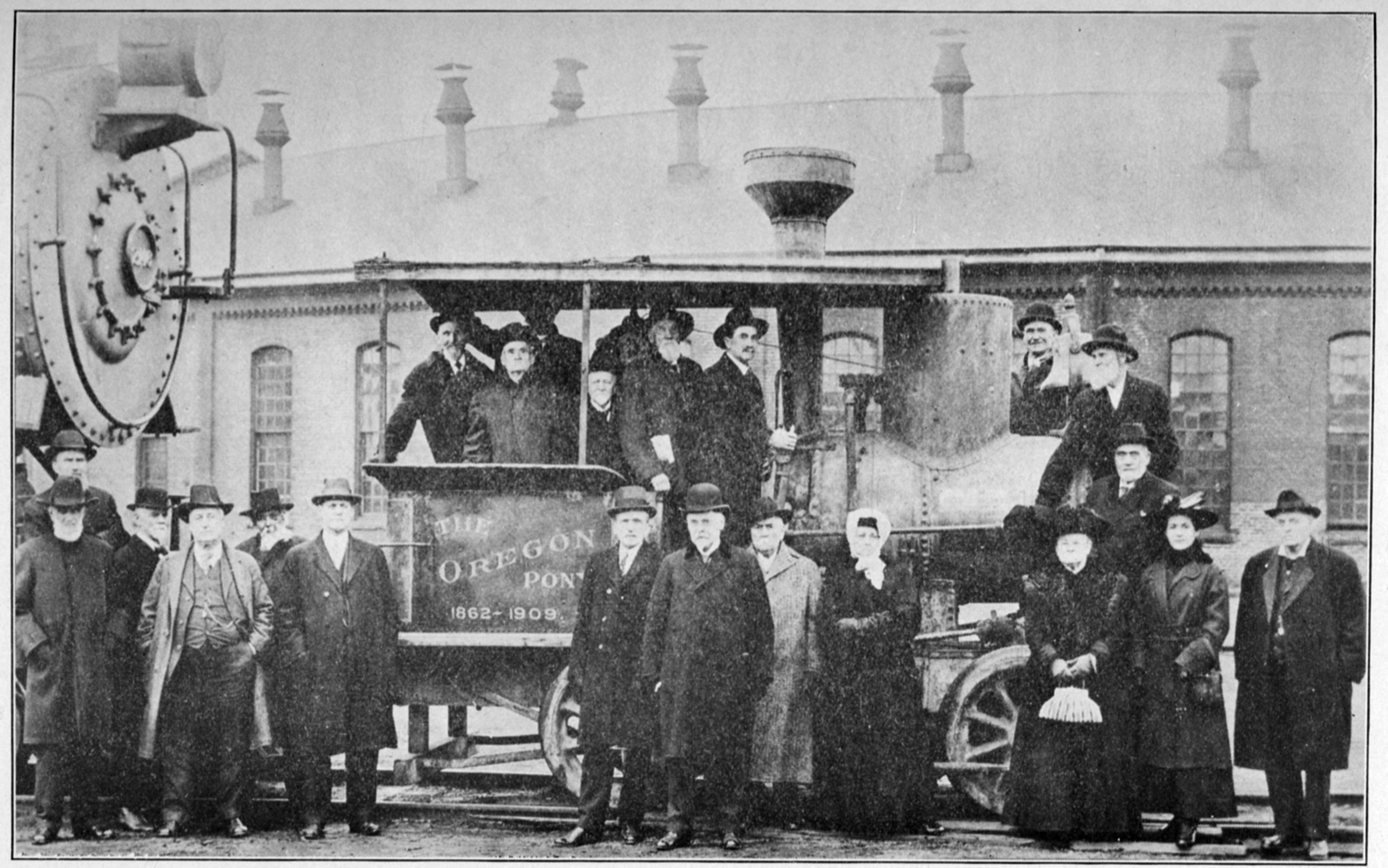 Image from the Oregon Historical Quarterly Vol. 25